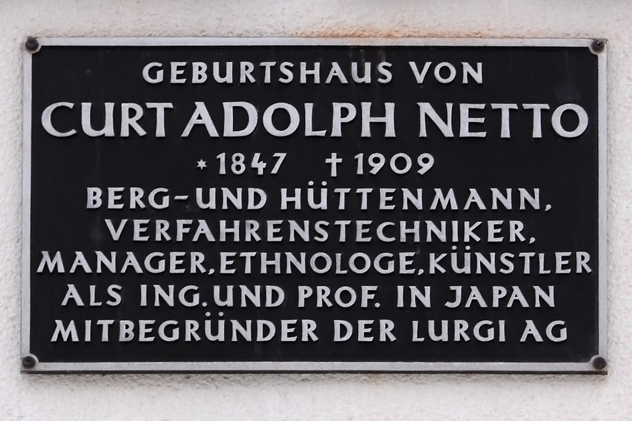 Curt Adolph Netto, commemorative plaque on the house where he was born